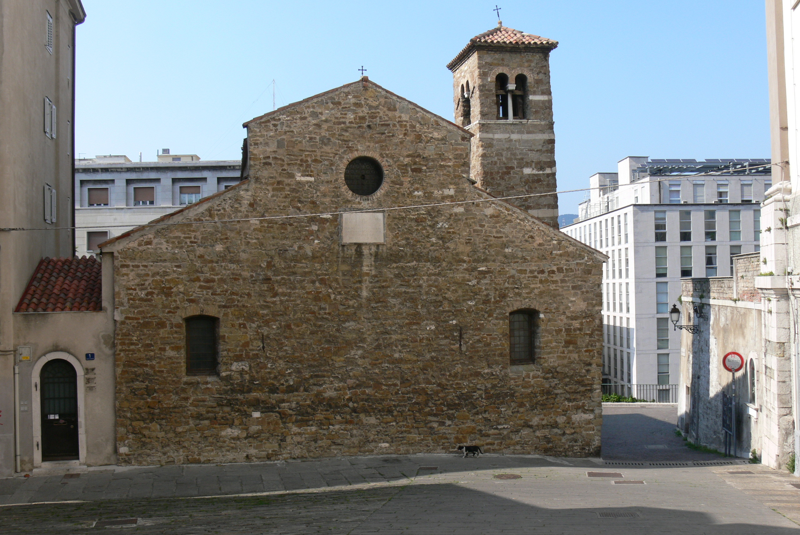 Trieste ( Italy ). San Silvestro ( backside ).